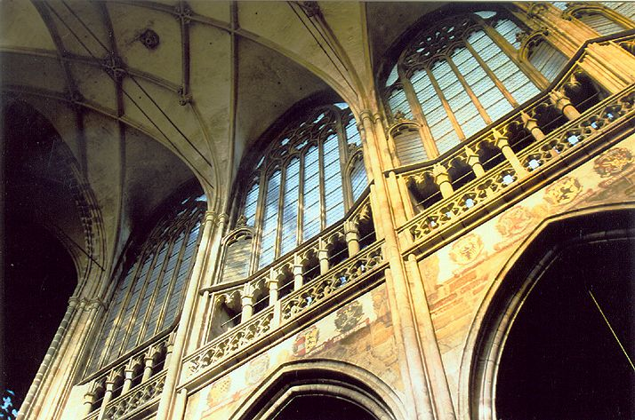 Choir of St Vitus cathedral (view of clerestory from interior).